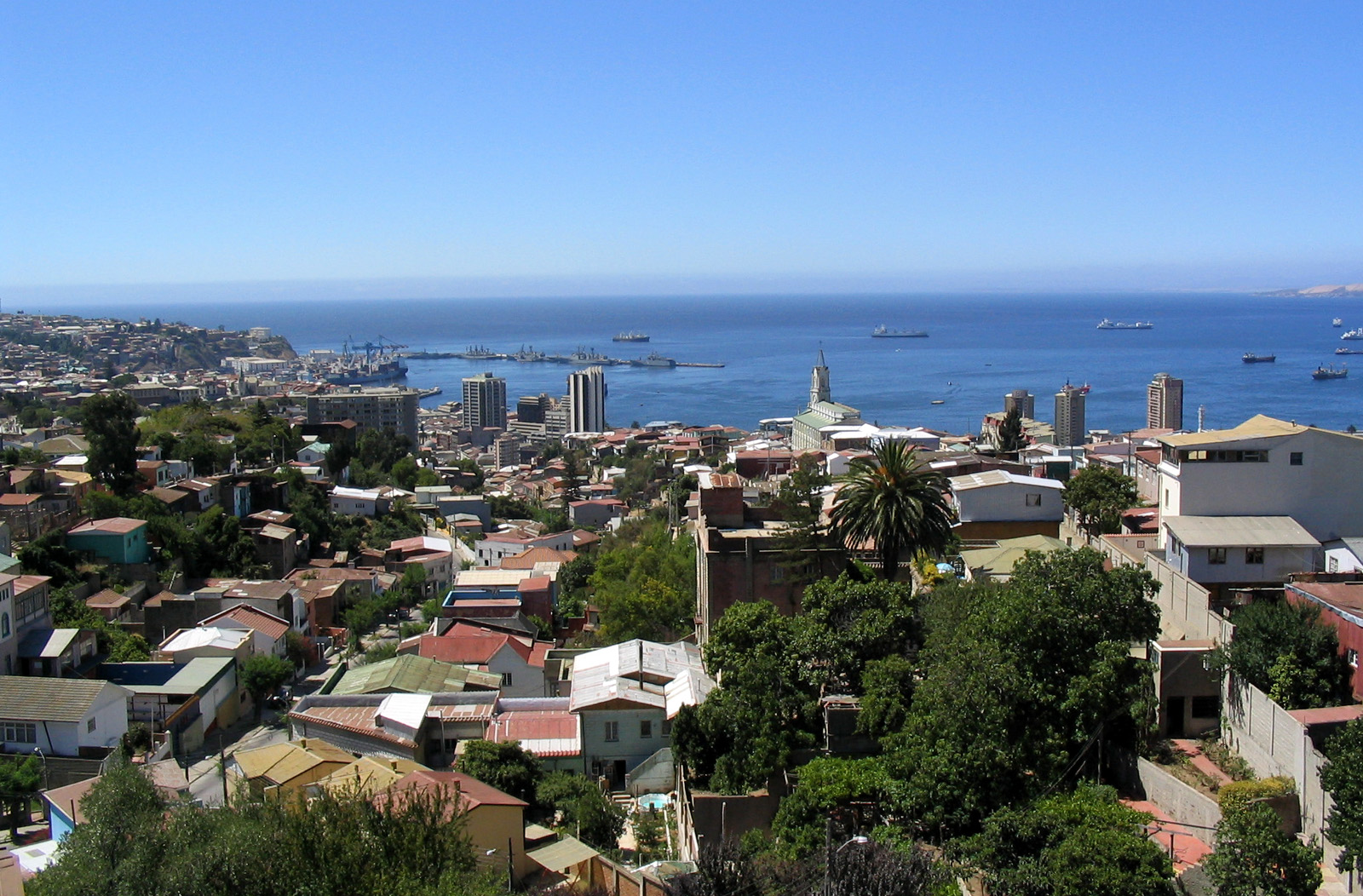 Valparaíso, Chile - View from the window of La Sebastiana.